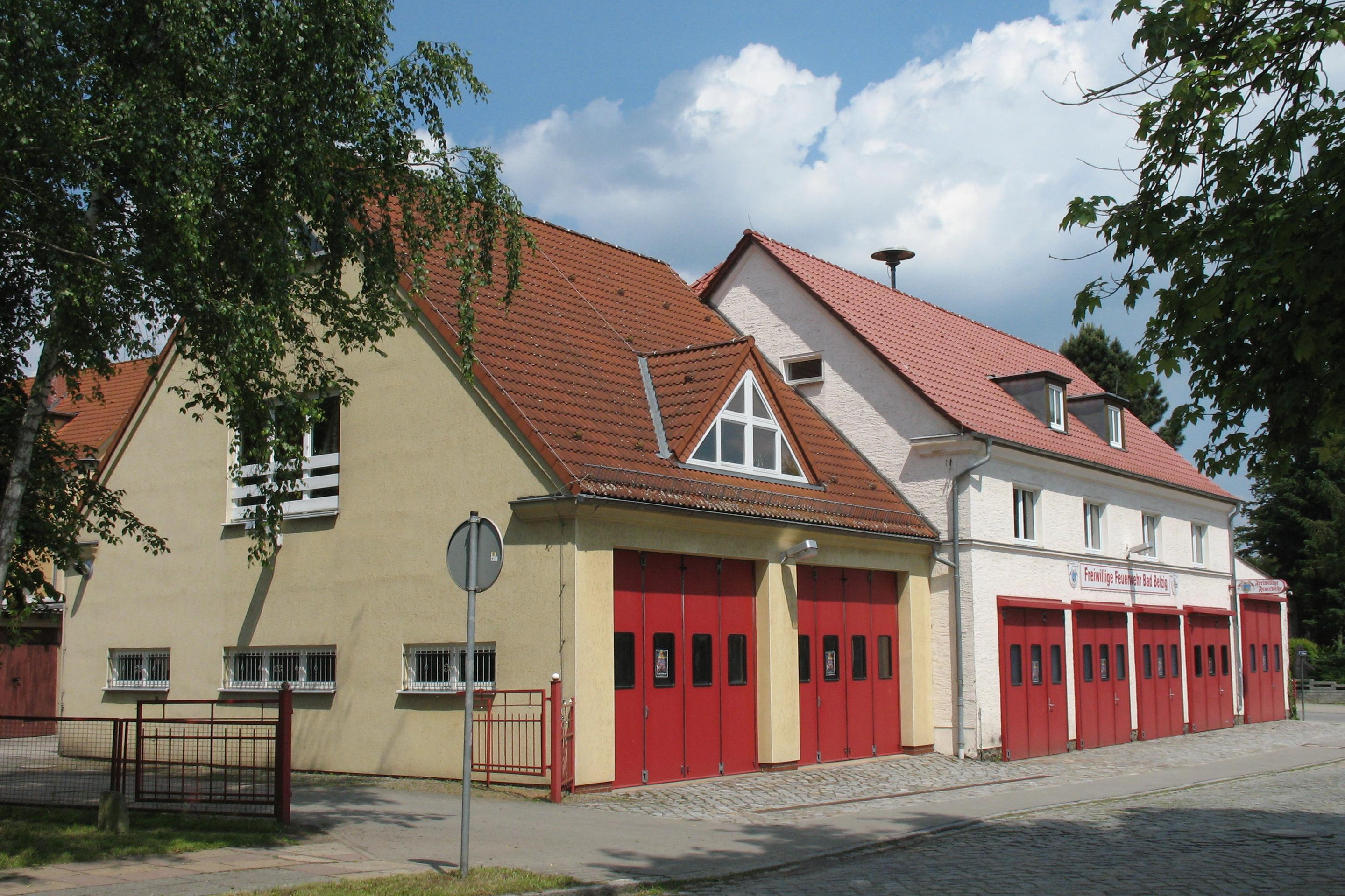 Fire station in Bad Belzig in Brandenburg, Germany